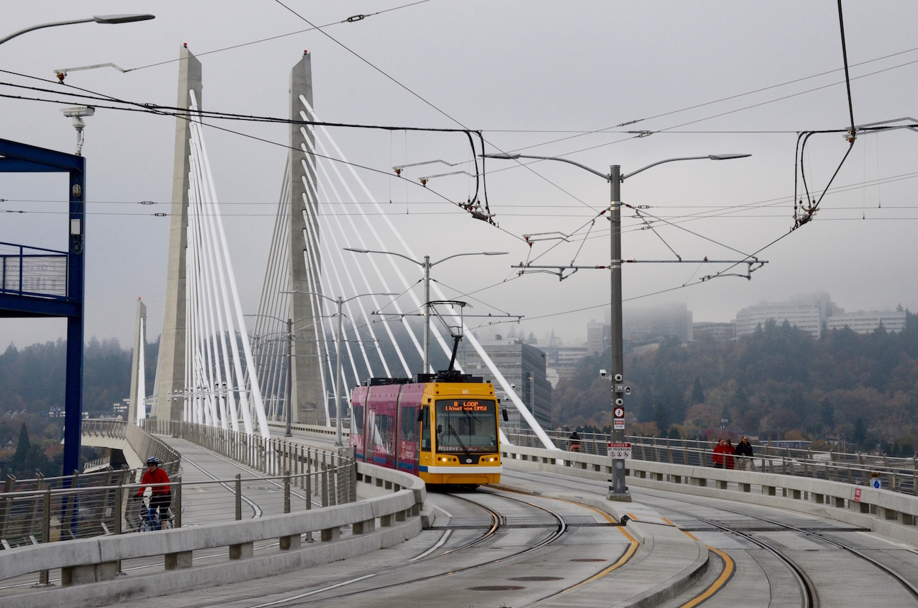 Car 21 of the Portland Streetcar system eastbound on the Tilikum Crossing, approaching the bridge's east end, on the "B Loop" service. In the background, Marquam Hill is shrouded in fog.